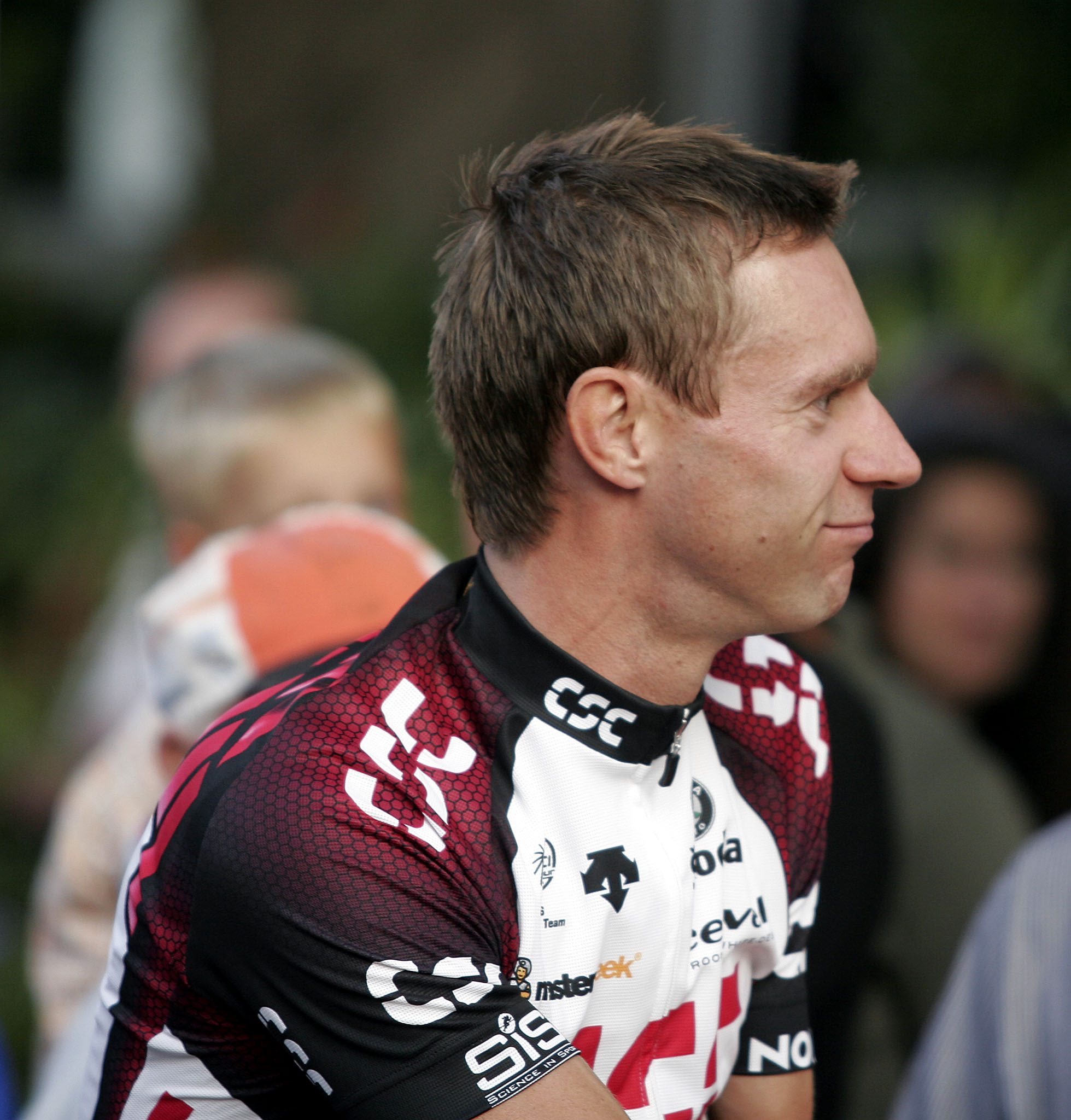 Jens Voigt, the German cyclist, in Lorsch (Hesse, Germany) prior the Entega Grand Prix 2007